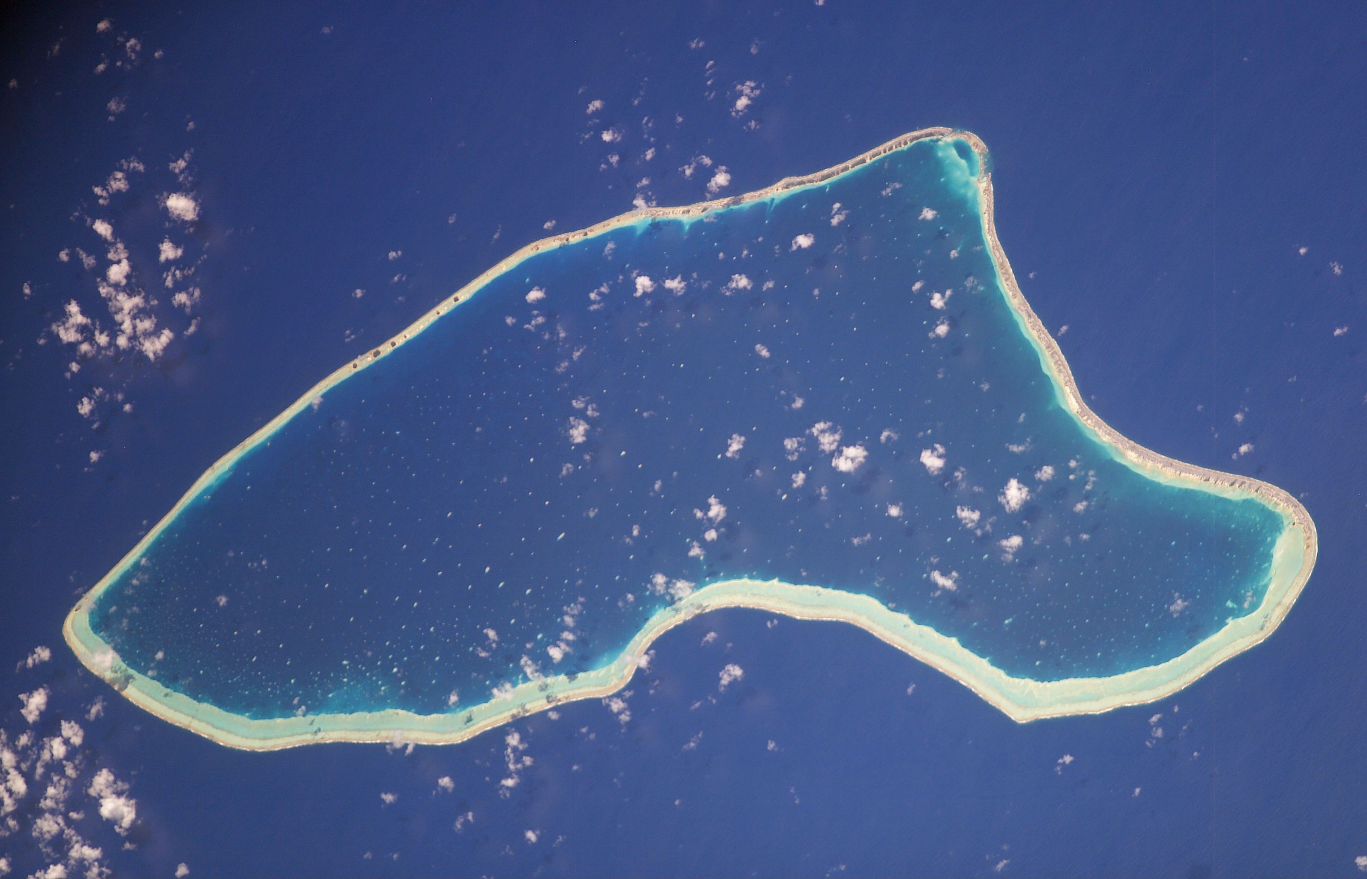 NASA astronaut image of Marutea Nord Atoll (Tuamotu Archipelago, French Polynesia) in the Pacific Ocean